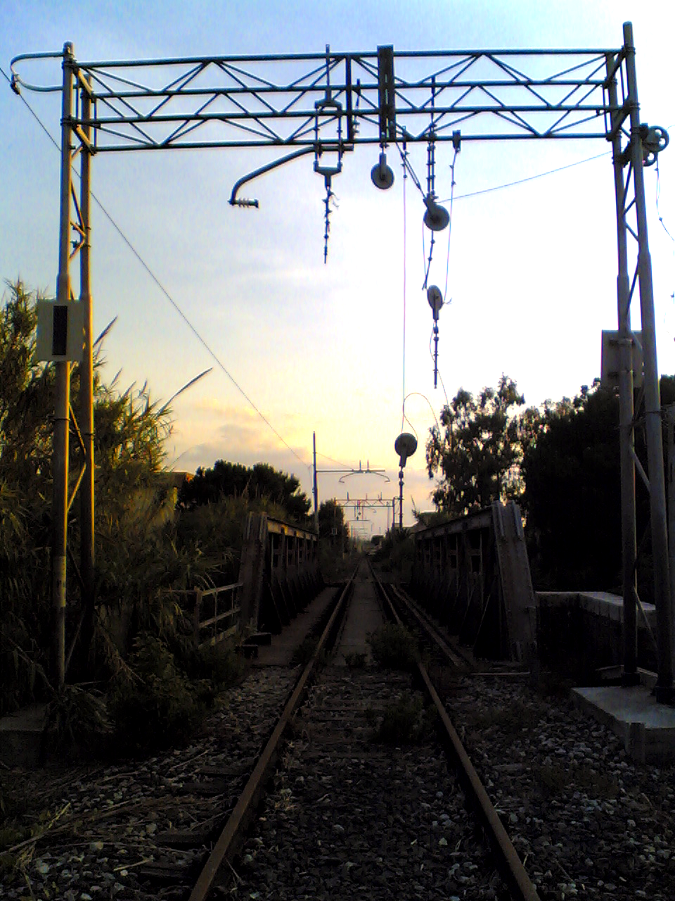 Dismissed railroad bridge between Spadafora and Venetico (railway line Palermo-Messina).